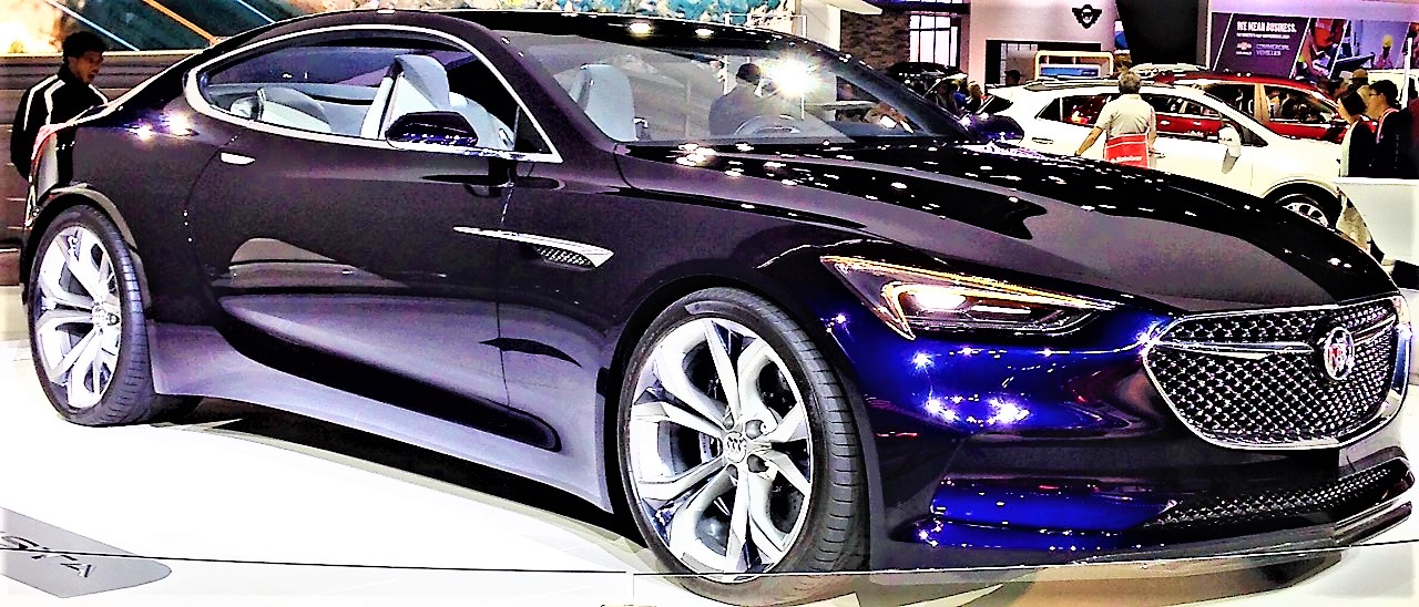 Buick Concept on display at the LA AUTO SHOW (2016)